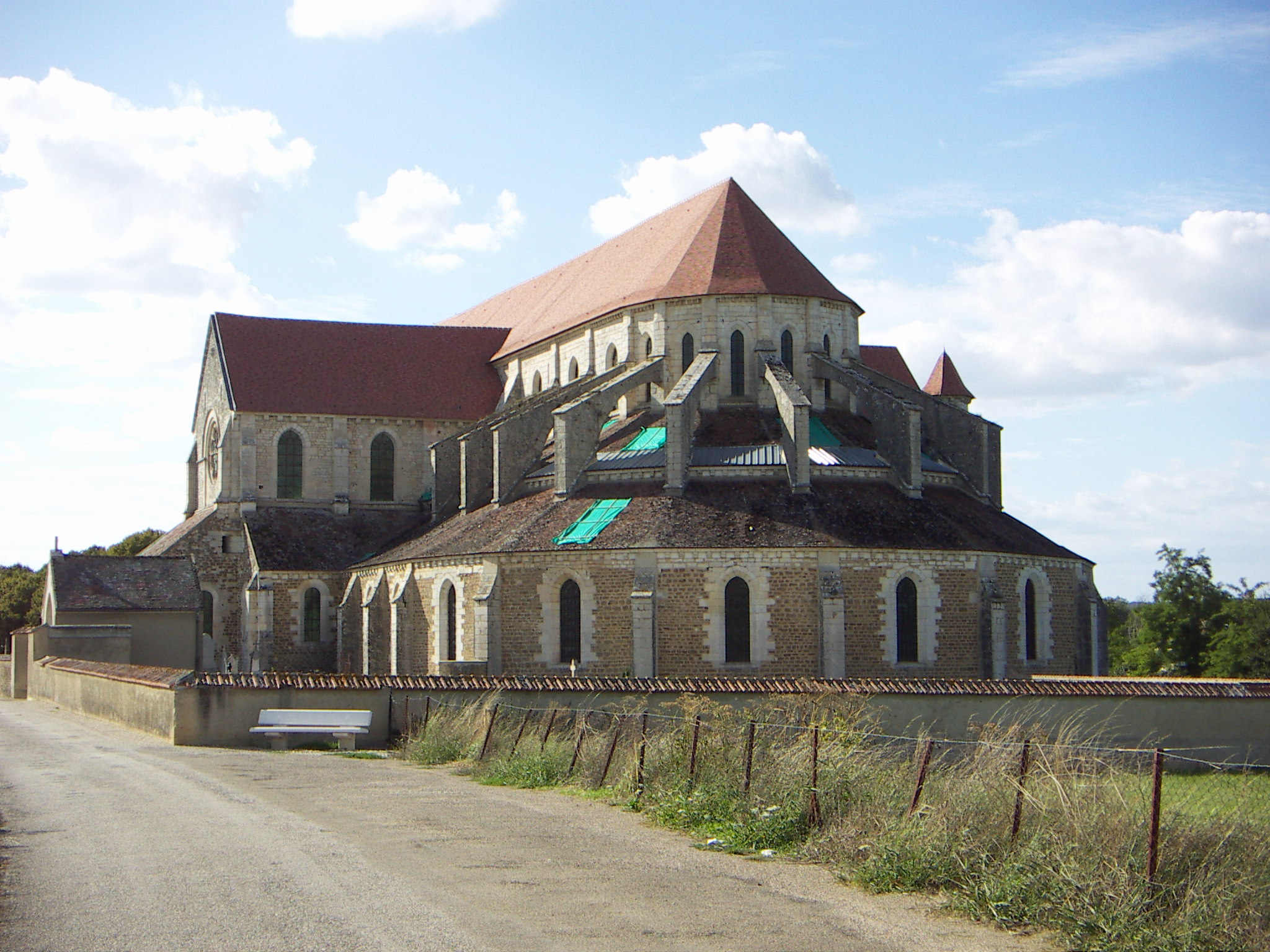 Pontigny Abbey